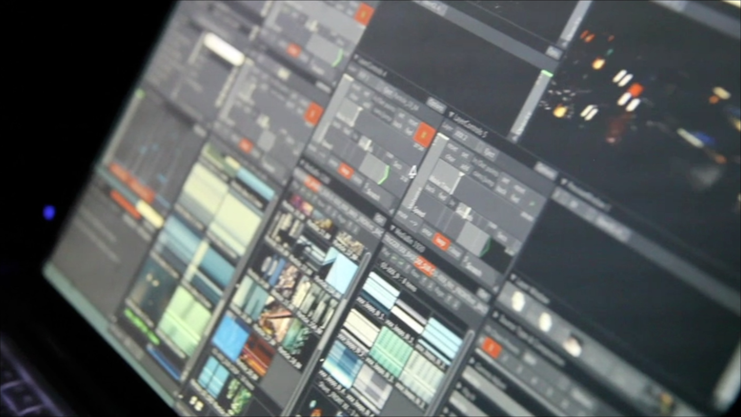 During the a Dfuse performance of the VDMX interface arrangement, a customizable interface